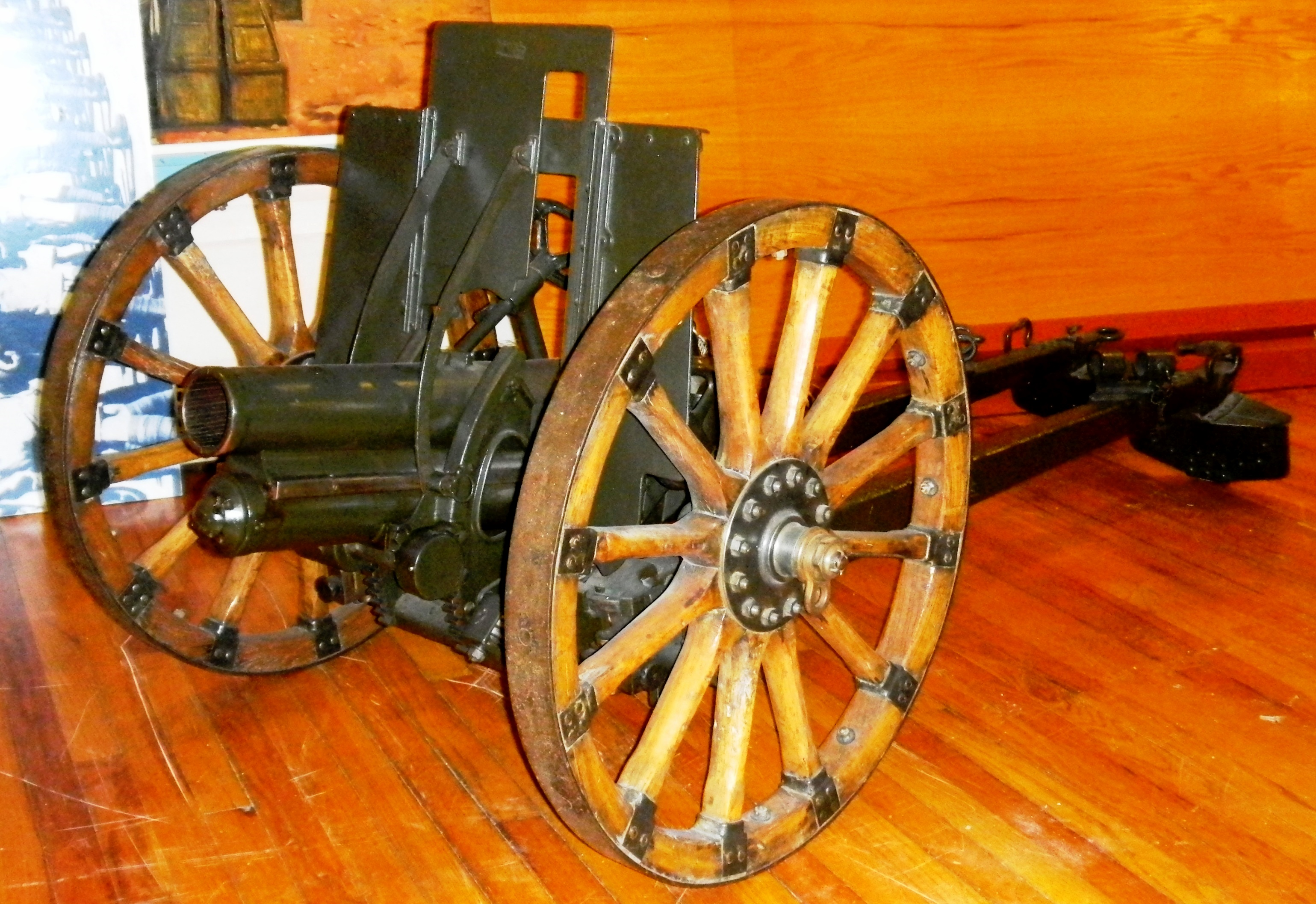 Japanese Type 92 70 mm Field Gun on display inside the New Brunswick Military History Museum, CFB Gagetown, New Brunswick. This gun was brought back by Canadians who took part in the action at Kiska, Alaska during the Second World War, and is on loan from the RCA Museum, CFB Shilo, Manitoba.